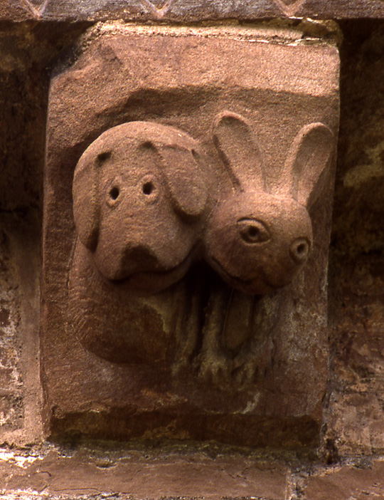 A scan from a 35mm transparency which I took at the exquisite Romanesque church of Saint Mary and Saint David in Kilpeck, Herefordshire, England in 1989. It shows one of the well-preserved carved corbels supporting the roof, depicting a hound and a hare, in a delightful style of cartoon-like simplicity. Carved during the mid 12th century AD (late Norman period) by an unknown sculptor of the "Herefordshire School". This scan is in the Public Domain (however, I retain ownership and copyright of the original transparency and any higher-resolution scans derived from it). If you use the photo outside Wikipedia, a photographer's credit (Simon Garbutt) would be appreciated. SiGarb 13:53, 23 November 2005 (UTC)